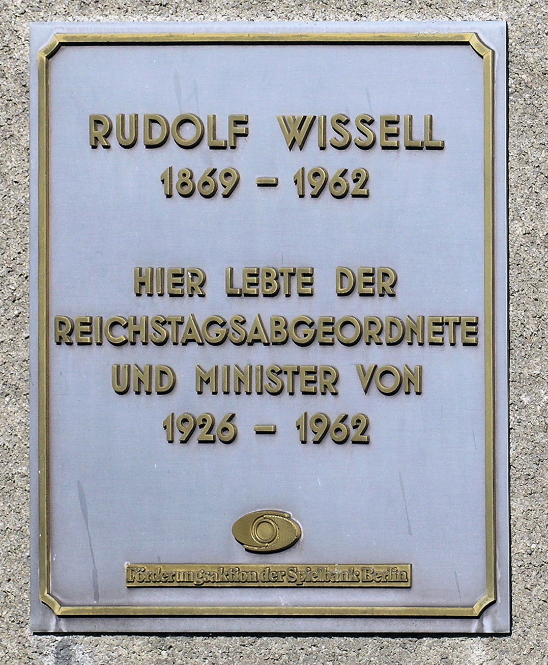 Memorial plaque, Rudolf Wissell, Wiesenerstraße 22, Berlin-Tempelhof, Germany Koordinate:52°28′25″N 13°22′46″E / 52.47361°N 13.37944°E